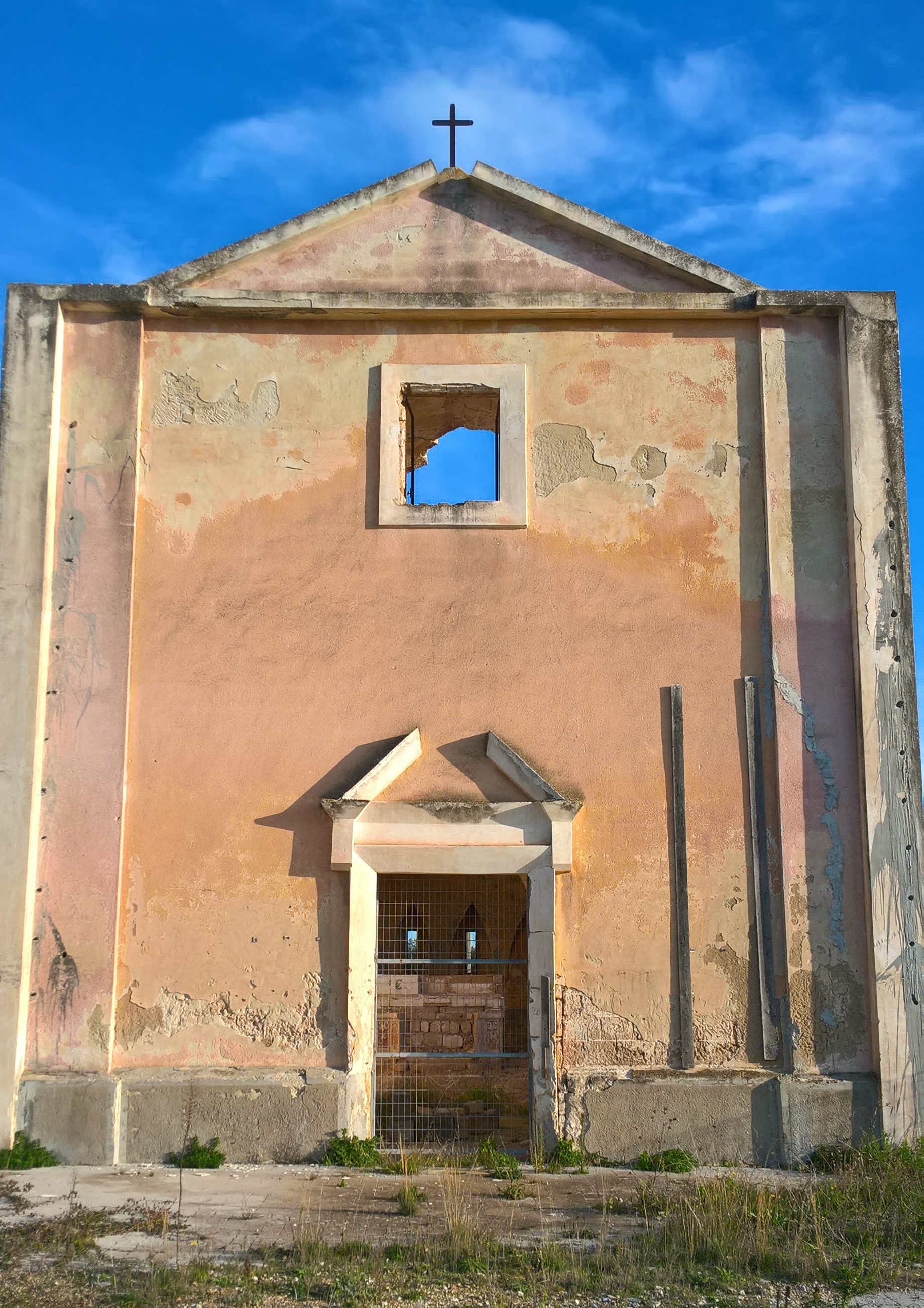 Rests of the greek-byzantine Chiesa Santa Maria di Costantinopoli